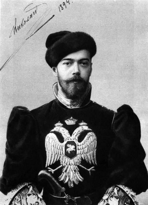 Nicholas II of Russia